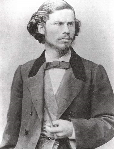 Ivan Nikolaevich Kramskoy. Photograph.